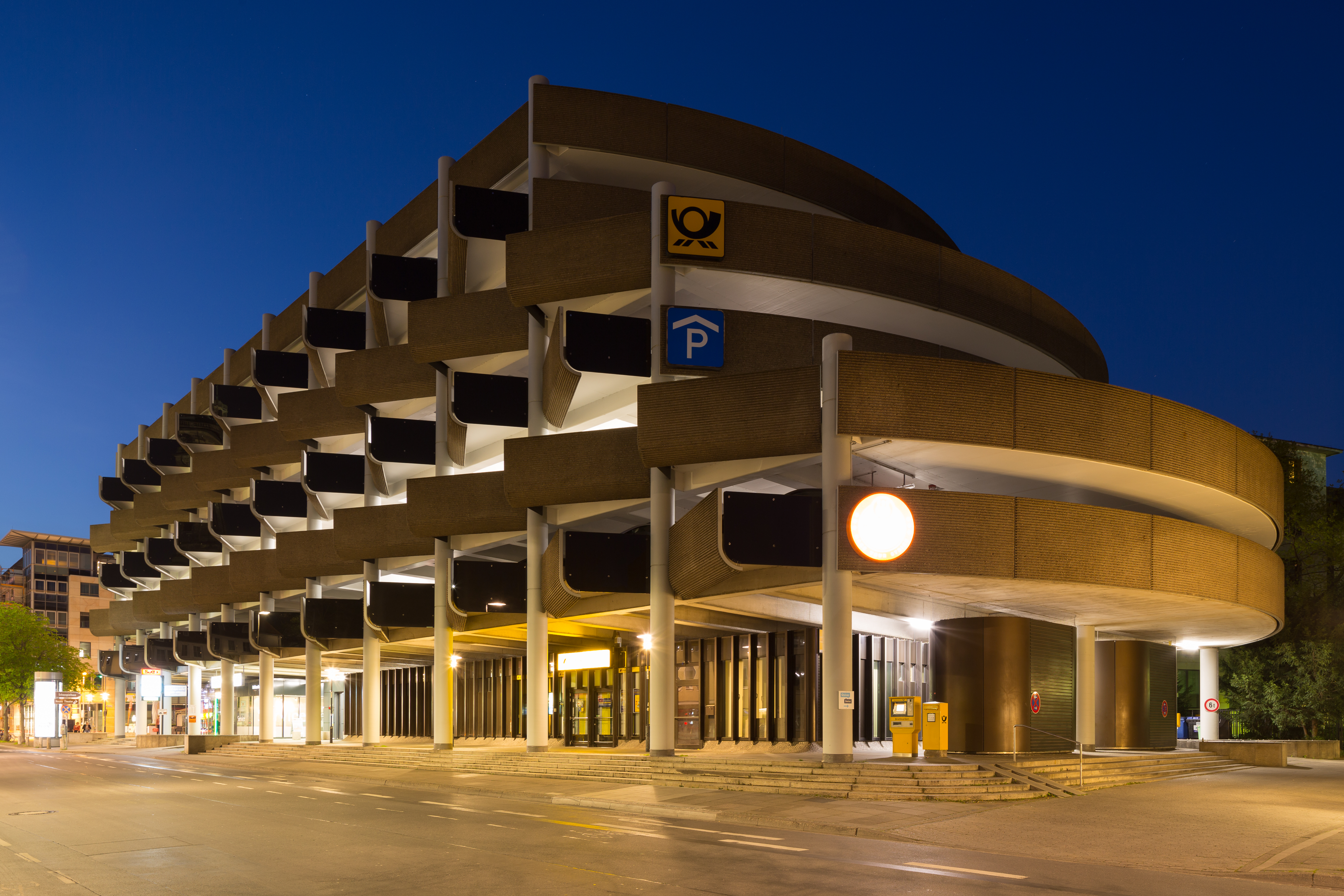 Car park building located at Osterstrasse in Mitte quarter of Hannover, Germany.